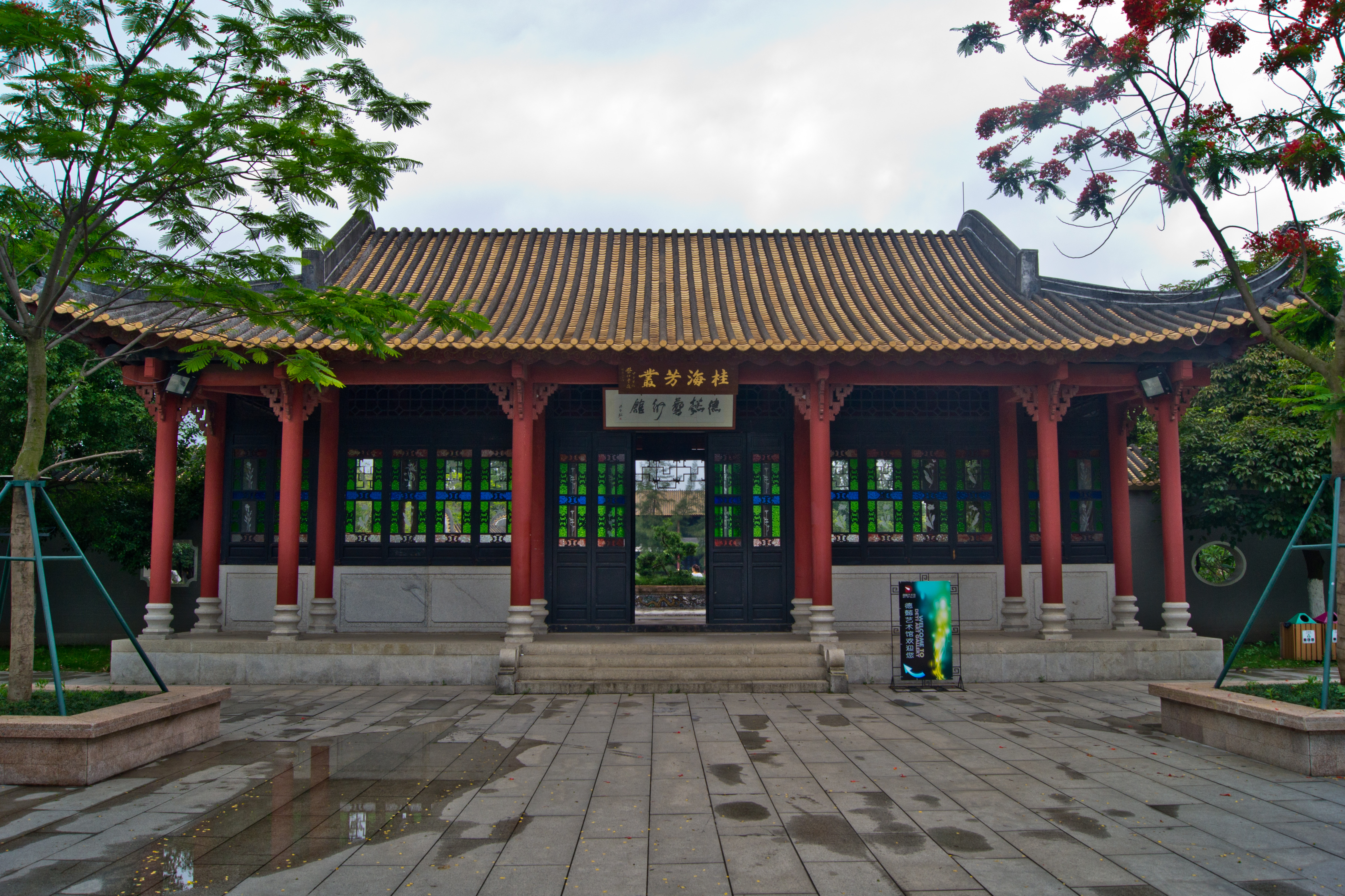 Gui Hai Fang Cong